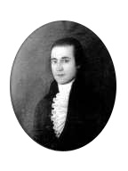 Barnabas Bidwell, politician and lawyer of Massachusetts and Upper Canada. Cropped from original to remove frame.